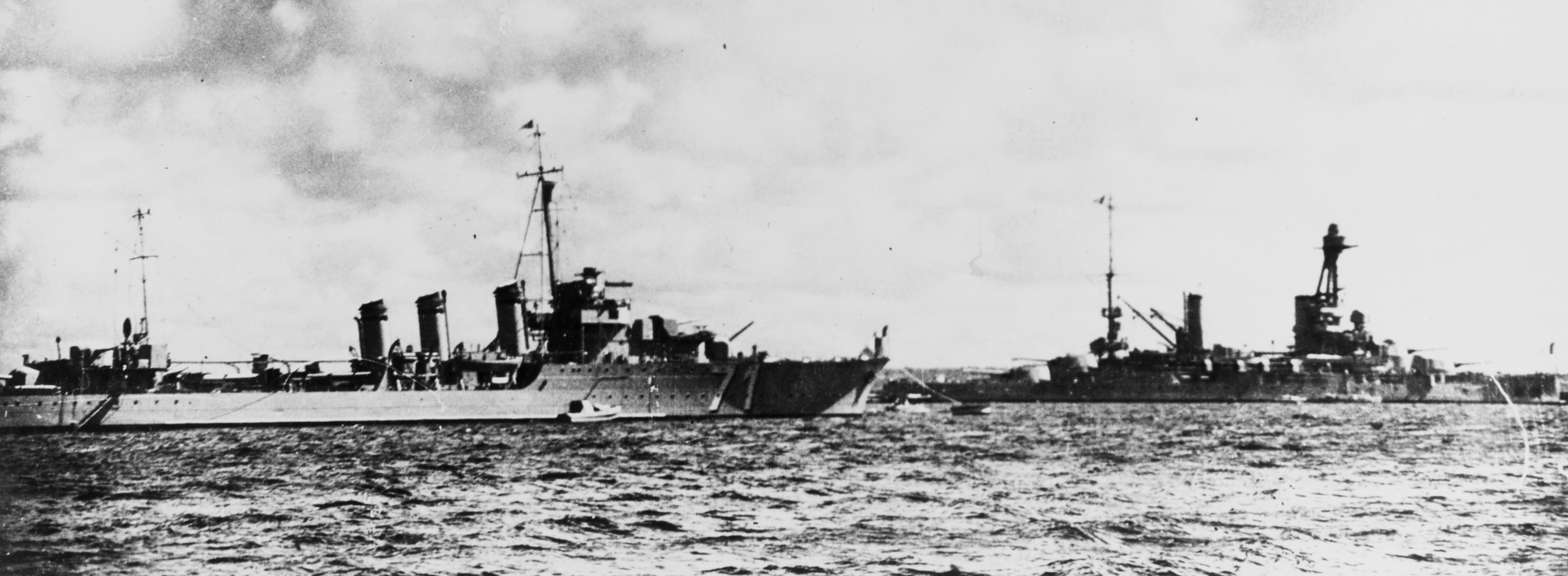 The French destroyer Le Mars moored to a buoy, reportedly in 1939. The battleship in the right distance is probably Provence.